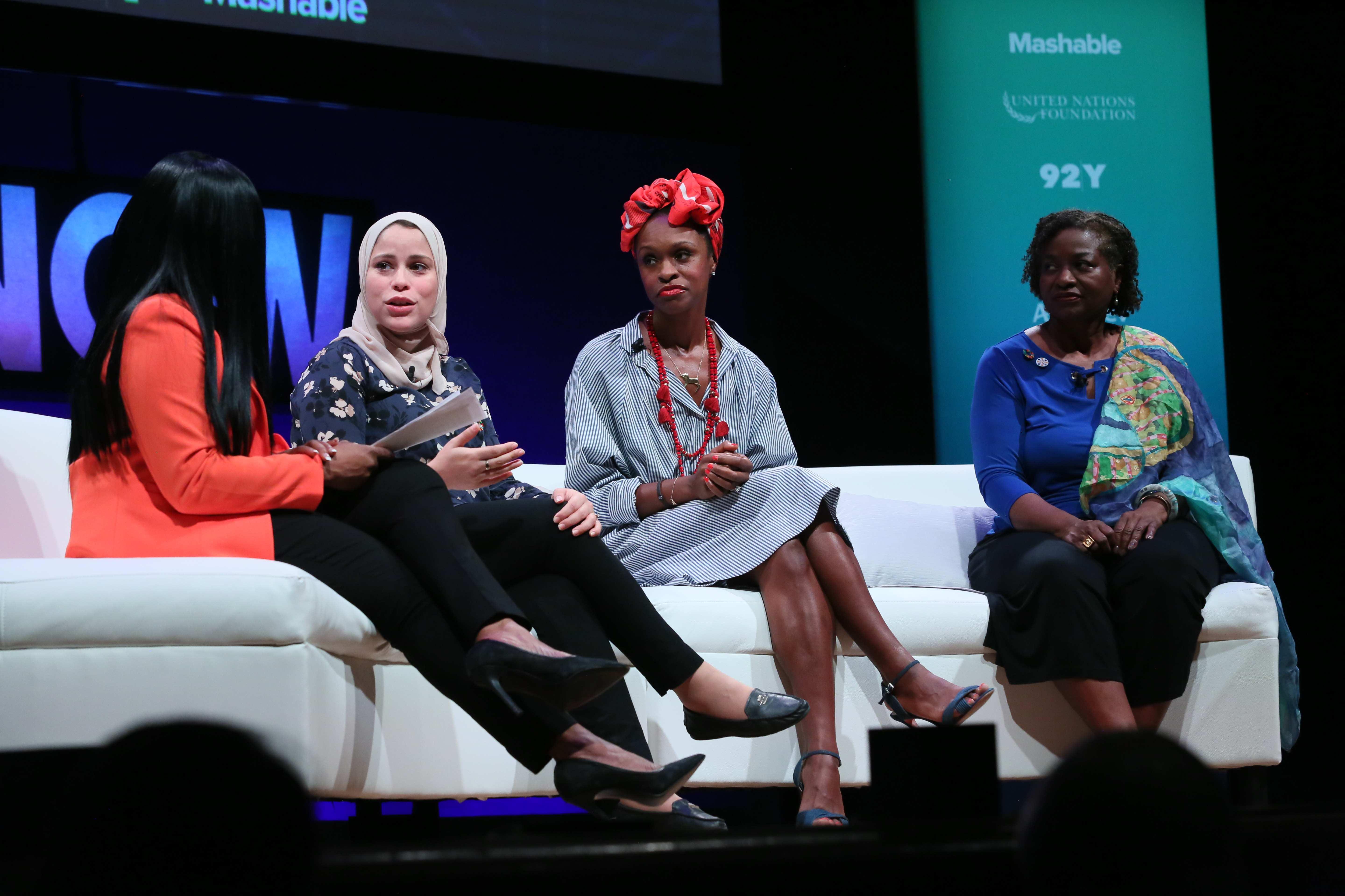 Linord Moutou, Dr. Alaa Murabit, Latham Thomas, and Dr. Natalia Kanem at Social Good Summit 2019.